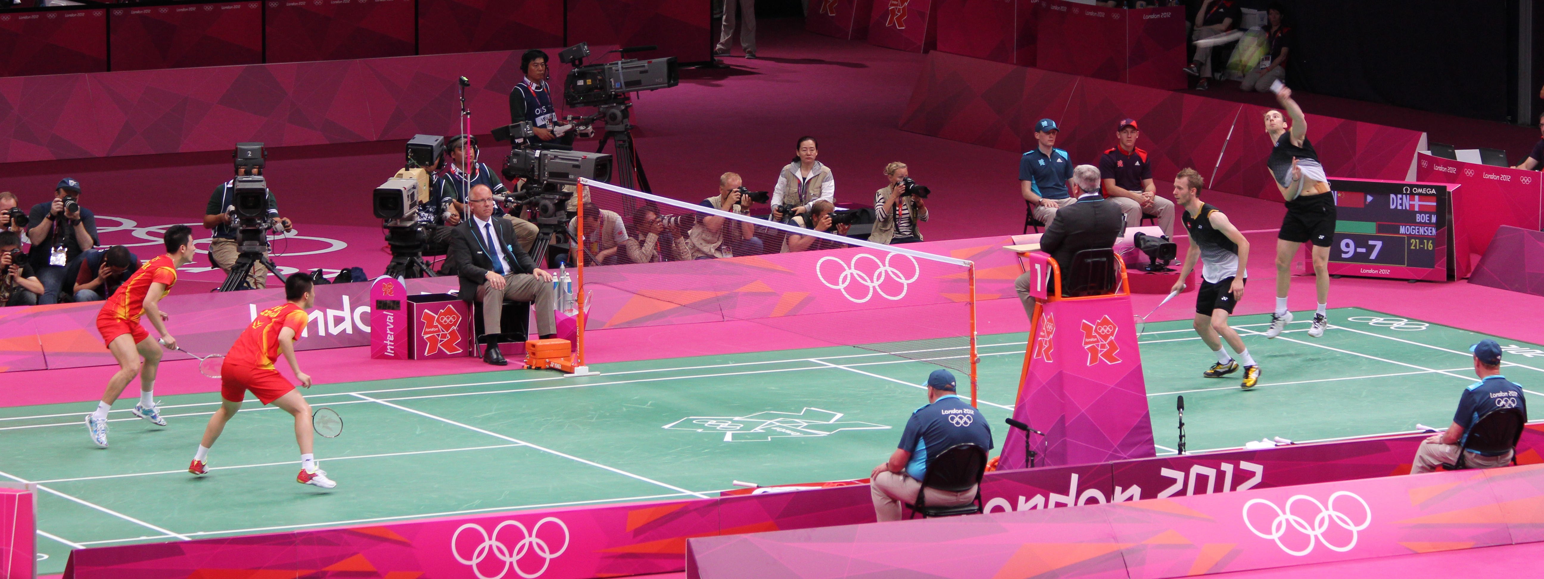 Cai Yun and Fu Haifeng vs. Mathias Boe and Carsten Mogensen In The Men's Doubles Badminton Final